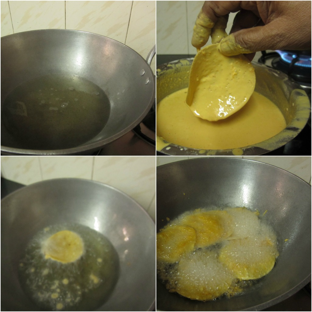 pappadam is on coconut oil